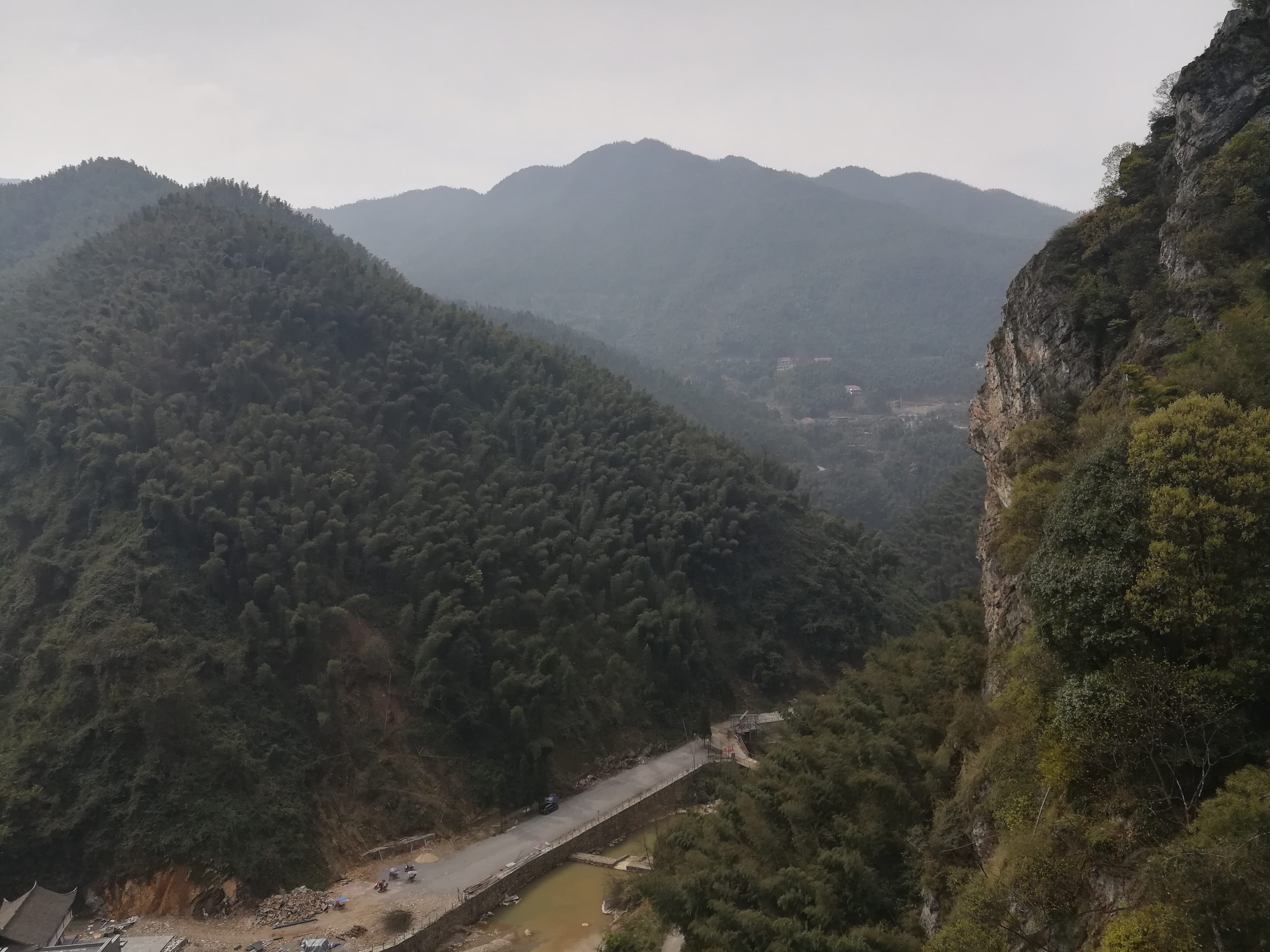 A view of Longshan Mountains from the glass bridge in the Longshan National Forest Park.